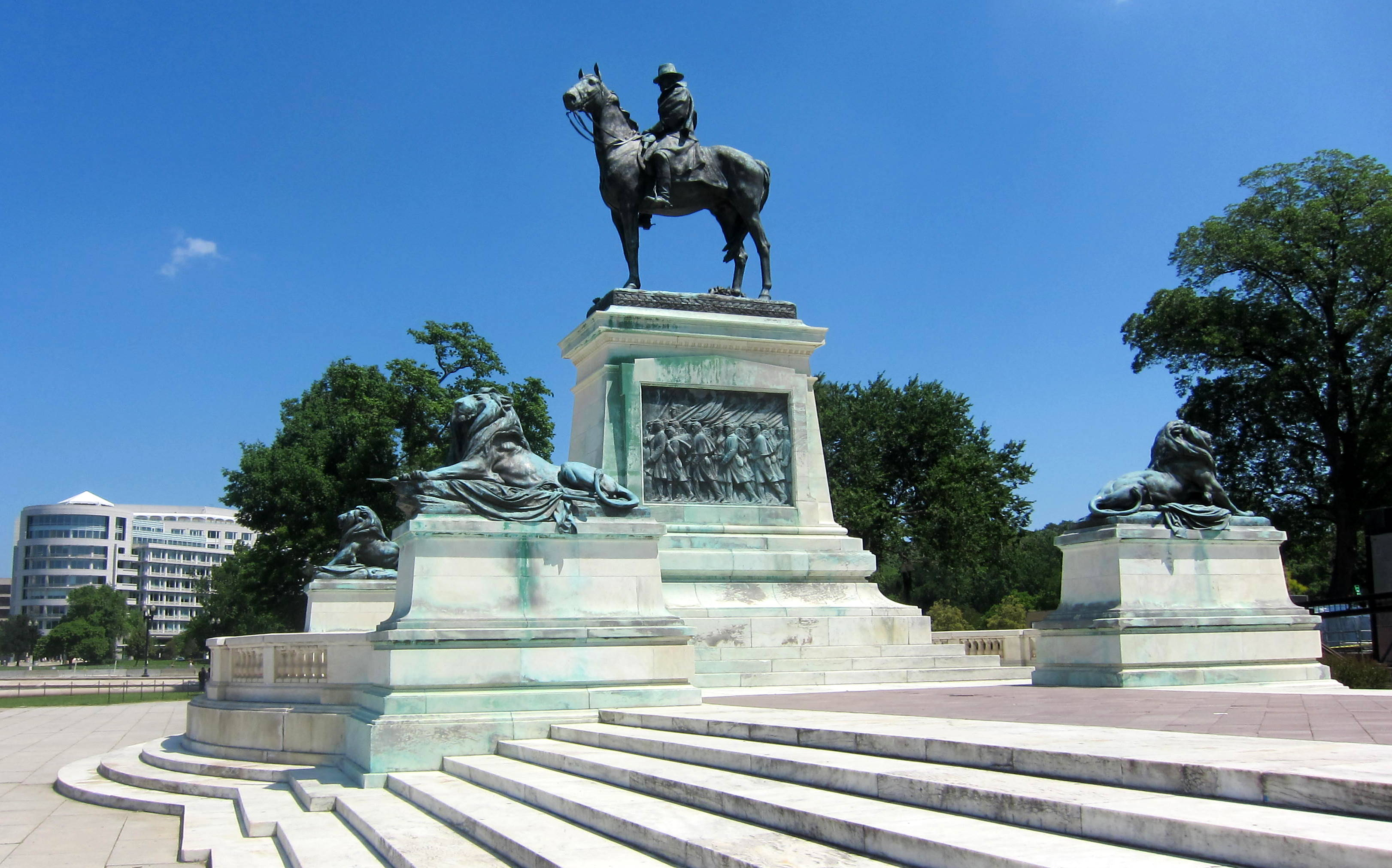 The Ulysses S. Grant Memorial, located in front of the United States Capitol, on the National Mall in Washington, D.C.